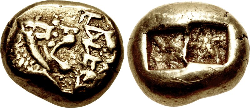 KINGS of LYDIA. Alyattes. Circa 620/10-564/53 BC. EL Trite – Third Stater (12.5mm, 4.69 g). Sardes mint. Head of roaring lion right, “sun” on forehead; WALWEL (in Lydian script) downward on right, read from outside-in; all on plain background / Two square punches. The lion head/incuse coinage is among the earliest firmly attributed to the Lydian kingdom, and its origins date to the time of Alyattes, who ruled circa 620/10-564/53 BC. While most of the coins are anepigraphic, a small number of them bear the inscription Walwel or Kukalim in Lydian. Although these names likely equate to Alyattes and Gyges, respectively, hoard studies have shown that these coins were not only contemprary with one another, but also with the anepigraphic issues. Thus, while Walwel may refer to the king, Kukalim most likely refers to another member of the royal family or some other high official. ��All trites and hektes with the inscription Walwel or Kukalim are struck from obverse dies that are much larger than the respective denominations require. These dies contain two opposing lion heads with the Lydian inscription between, and the coin blanks were struck off-center, in such a way that only one of the lion heads would be visible with the inscription. On the right edge of the obverse of the present coin, one may see the nose and tip of the jaw of the opposing lion head.